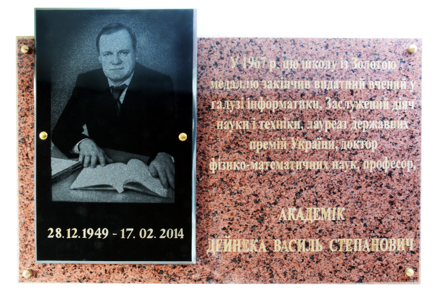 memorial plaque of Deineka V.S.